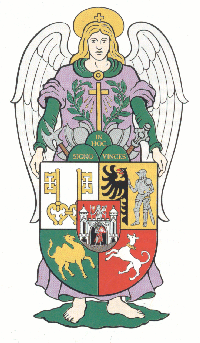 Coat of Arms of the city of Plzeň